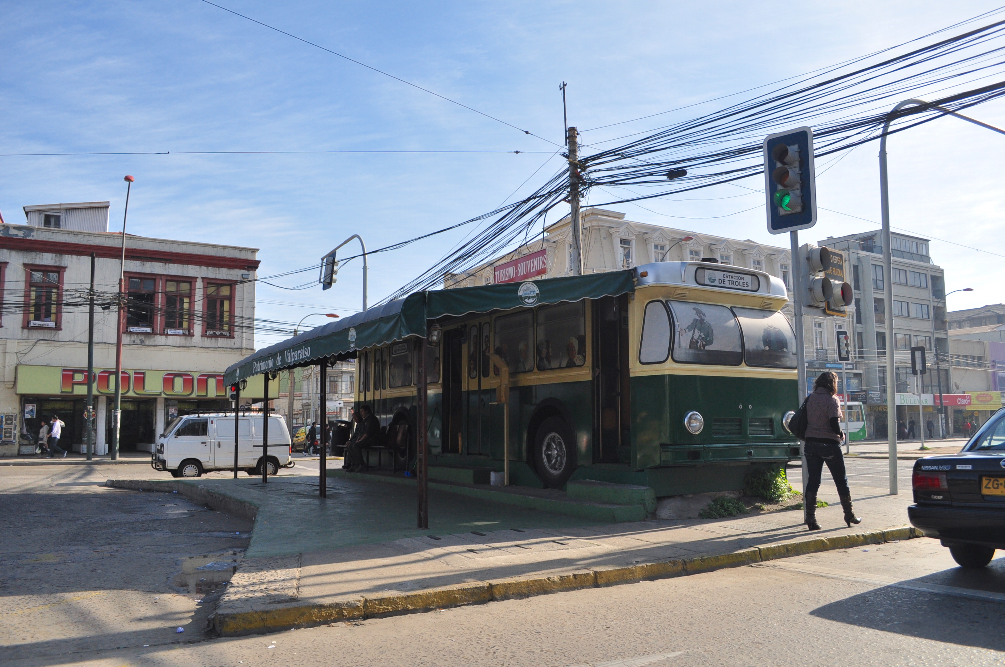 Ex-St. Gallen (Switzerland) trolleybus No. 142 in use as a ticket office (and office for employees) for the Valparaíso trolleybus system, at Barón terminus